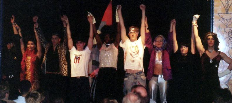 Camarillo preview of Wild Side Story l-r: Rico Soto, Jeannette Asenjo, H. Magnus Olsson, Alfredo Chacón, Steven Strom, Magnus Sellén, Åsa-Lis Grönberg, Lisa Pettersson & Sebastian Díaz, as released by image creator Lars Jacob ProdPlace: Camarillo, Kungstensgatan 22, Stockholm, Sweden